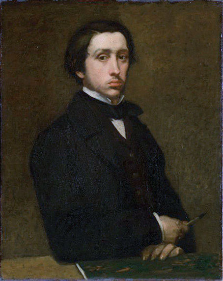 Courtesy of the Musée d'Orsay, Paris.